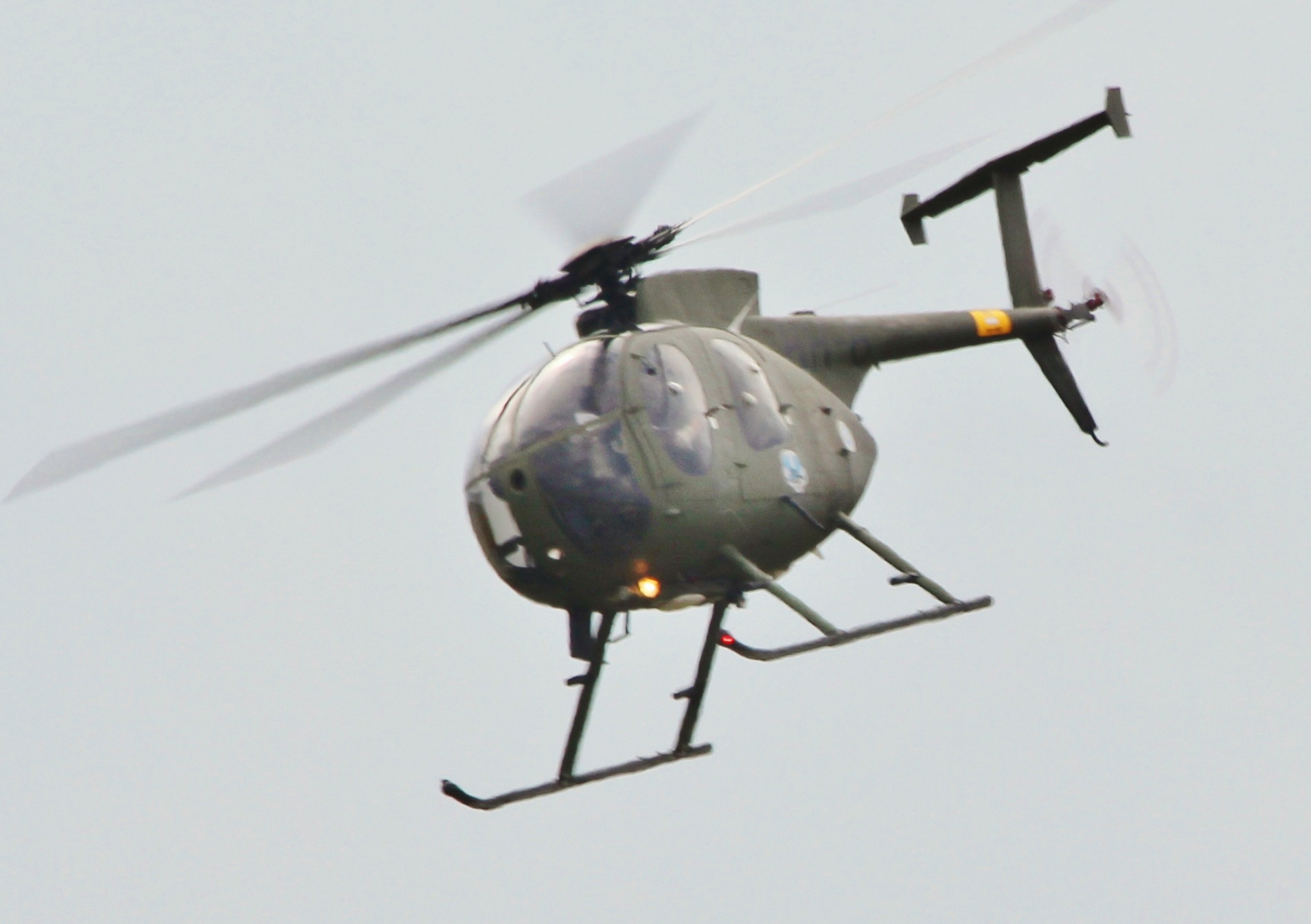 Finnish army MD 500D helicopter (HH-6) over Oulu Airport at Tour de Sky 2014 air show.